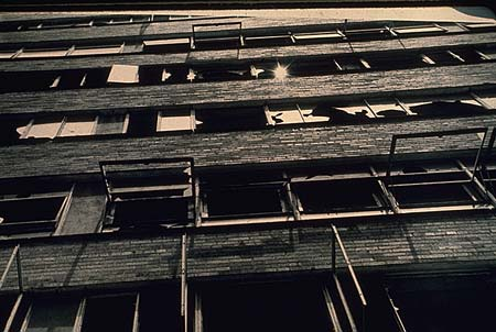 Abandoned dwellings in the Pruitt-Igoe housing development became the target of vandals.